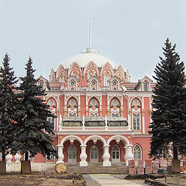 Petrovsky Palace, Moscow, Russia